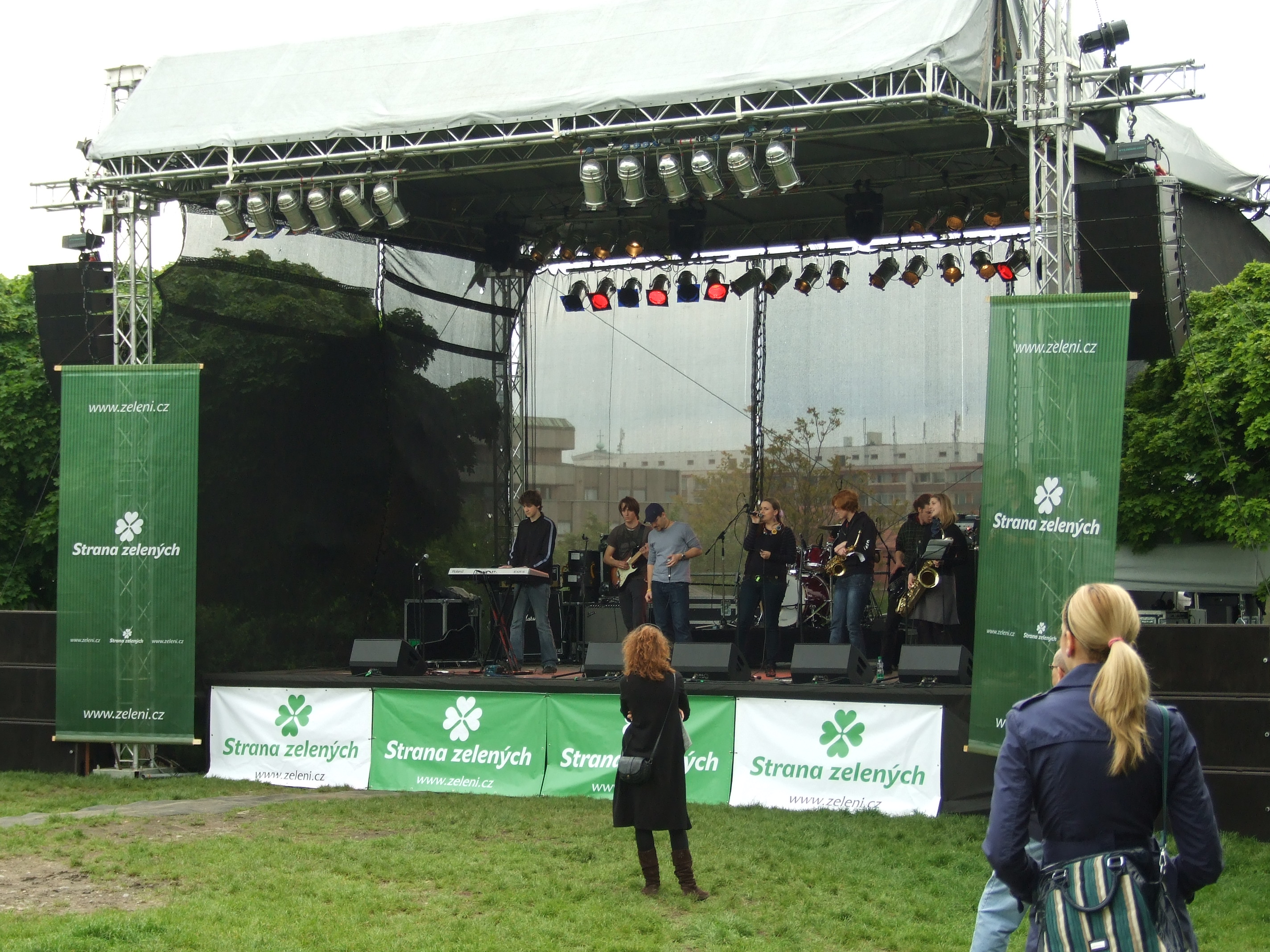 Czech Green Party campaign for 2010 elections - a musical stage in Prague park Parukářka (Prague-Žižkov), CZ